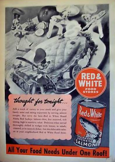 Red & White food store ad for canned salmon. Cropped from source to remove the image of the camera in the lower right.